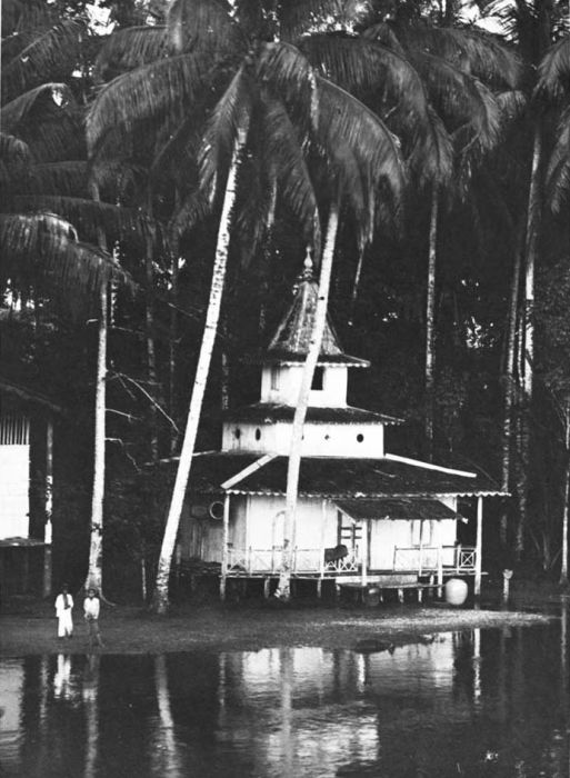 Mosque along the Barito river